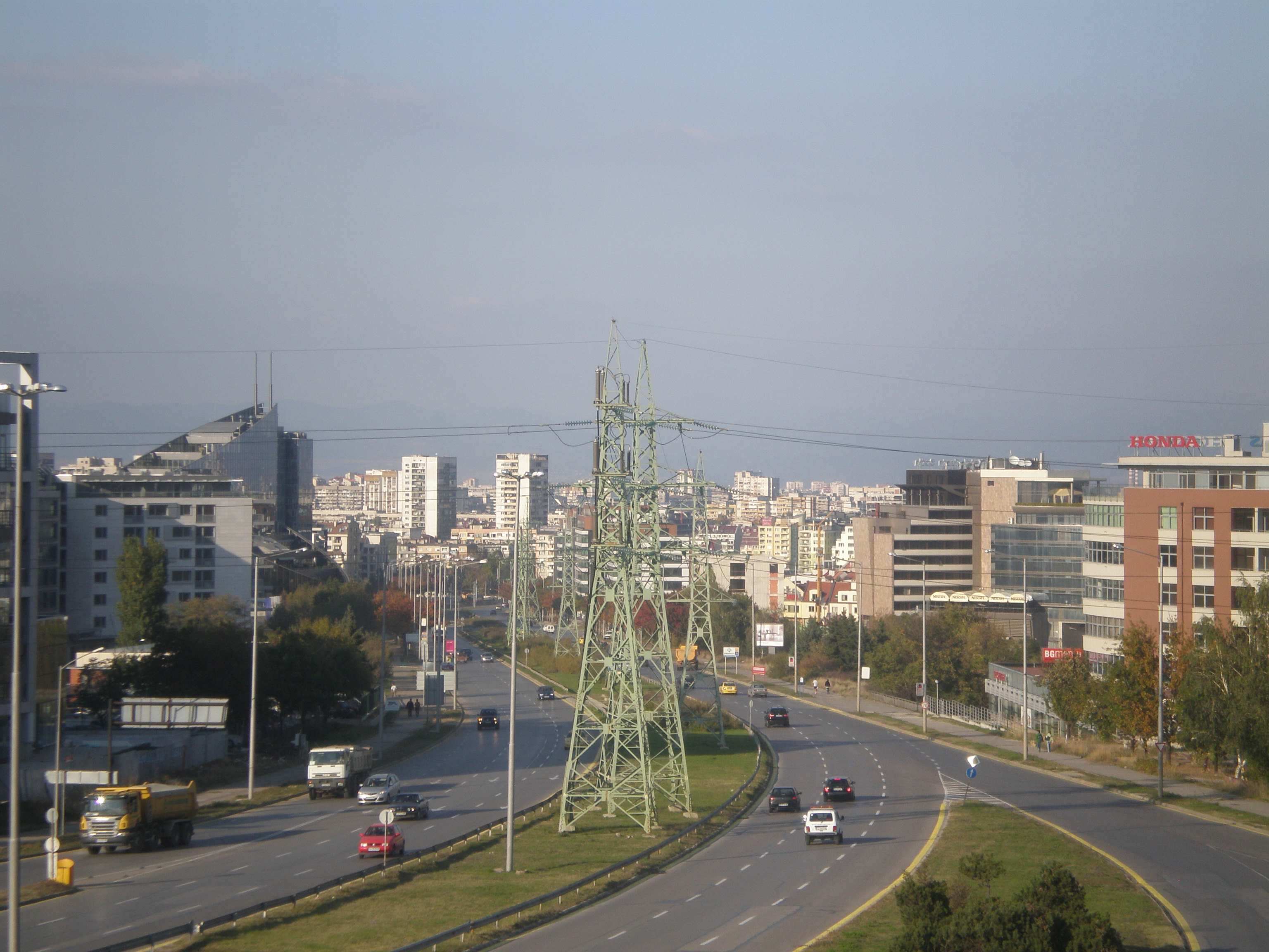 Bulgaria boulevard - Sofia, Bulgaria